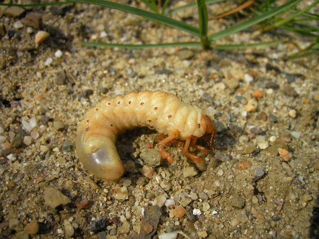 Melolontha melolontha